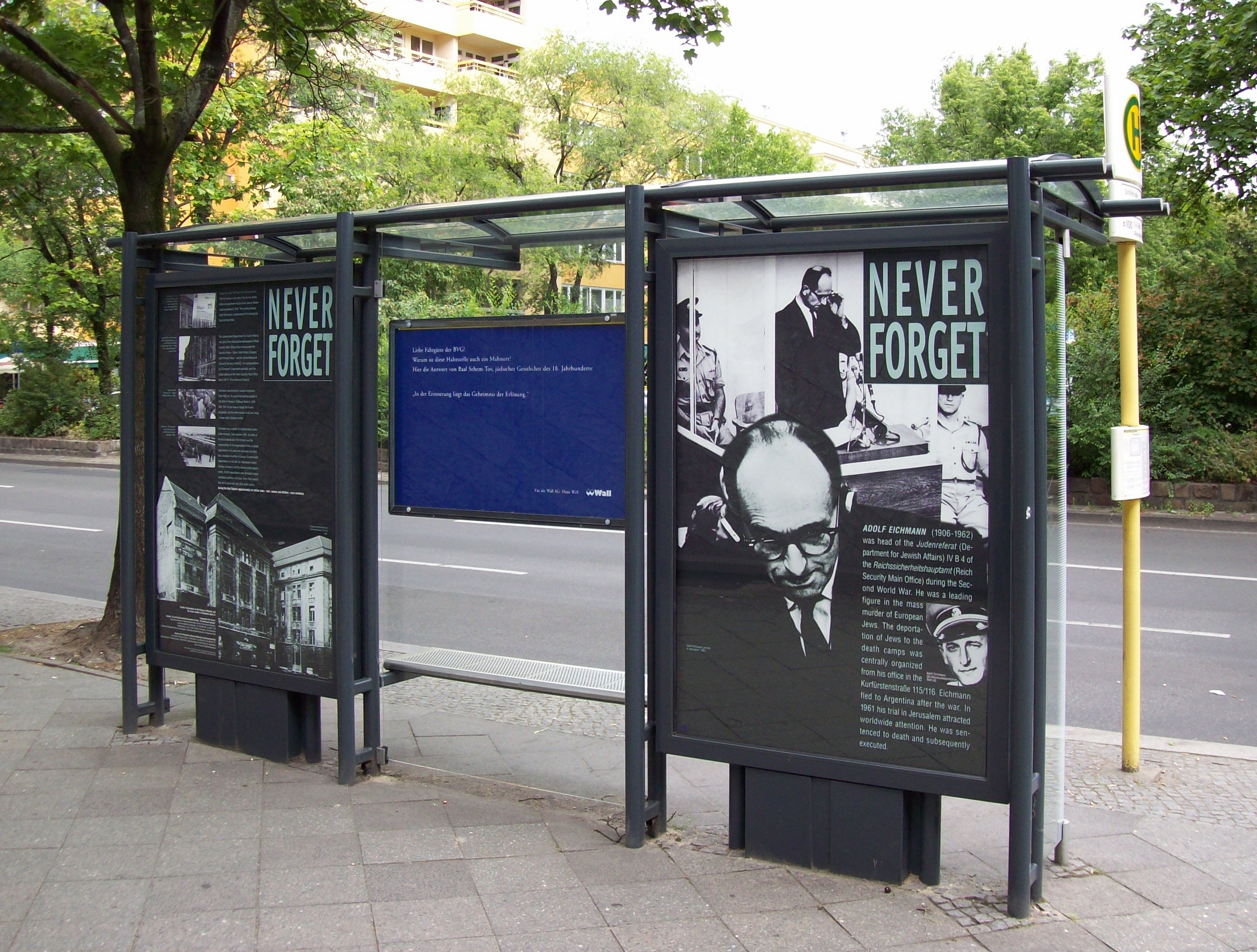 Bus-Stop in front of Eichmannreferat